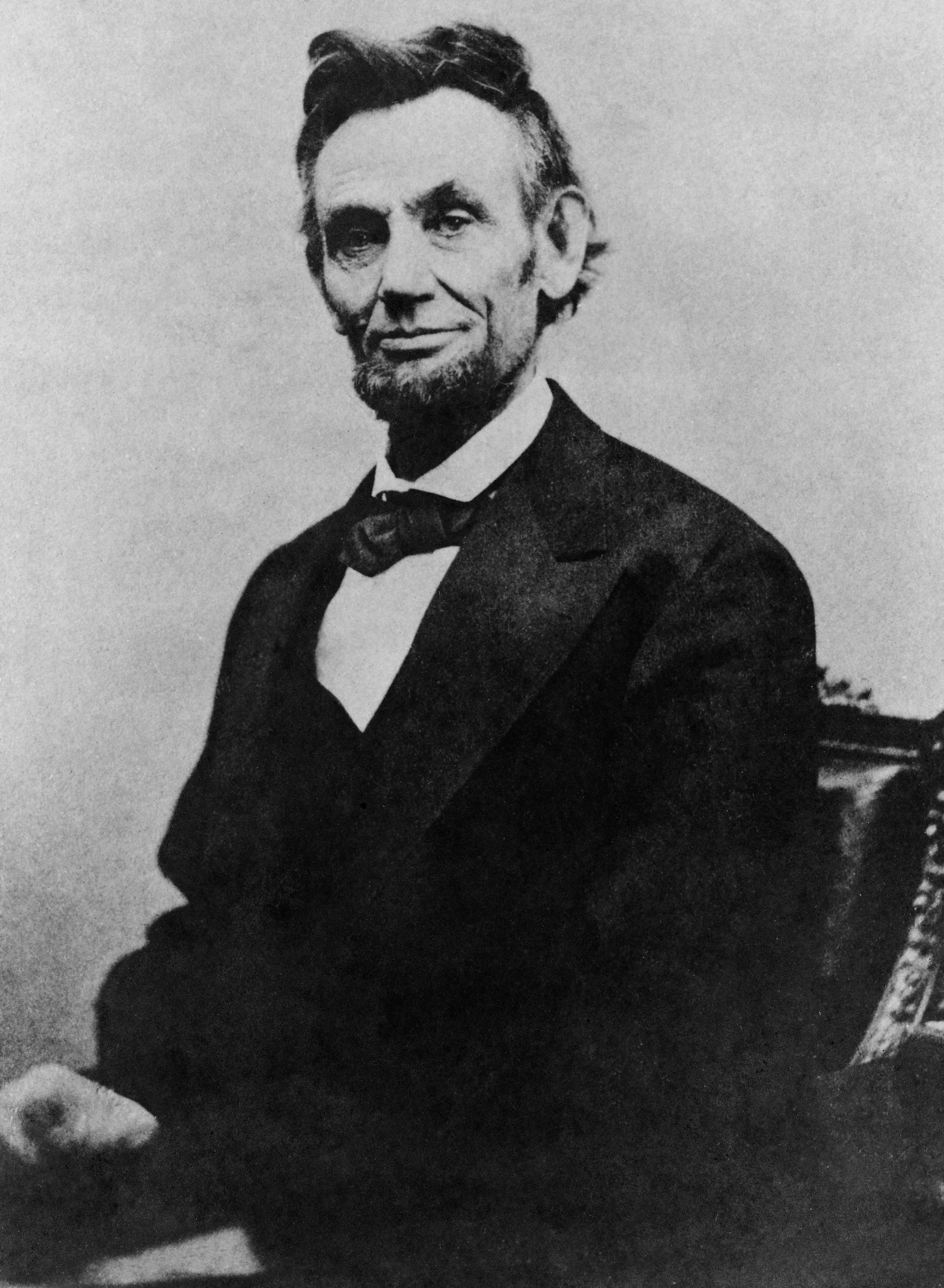 One of the last photographs of Abraham Lincoln.